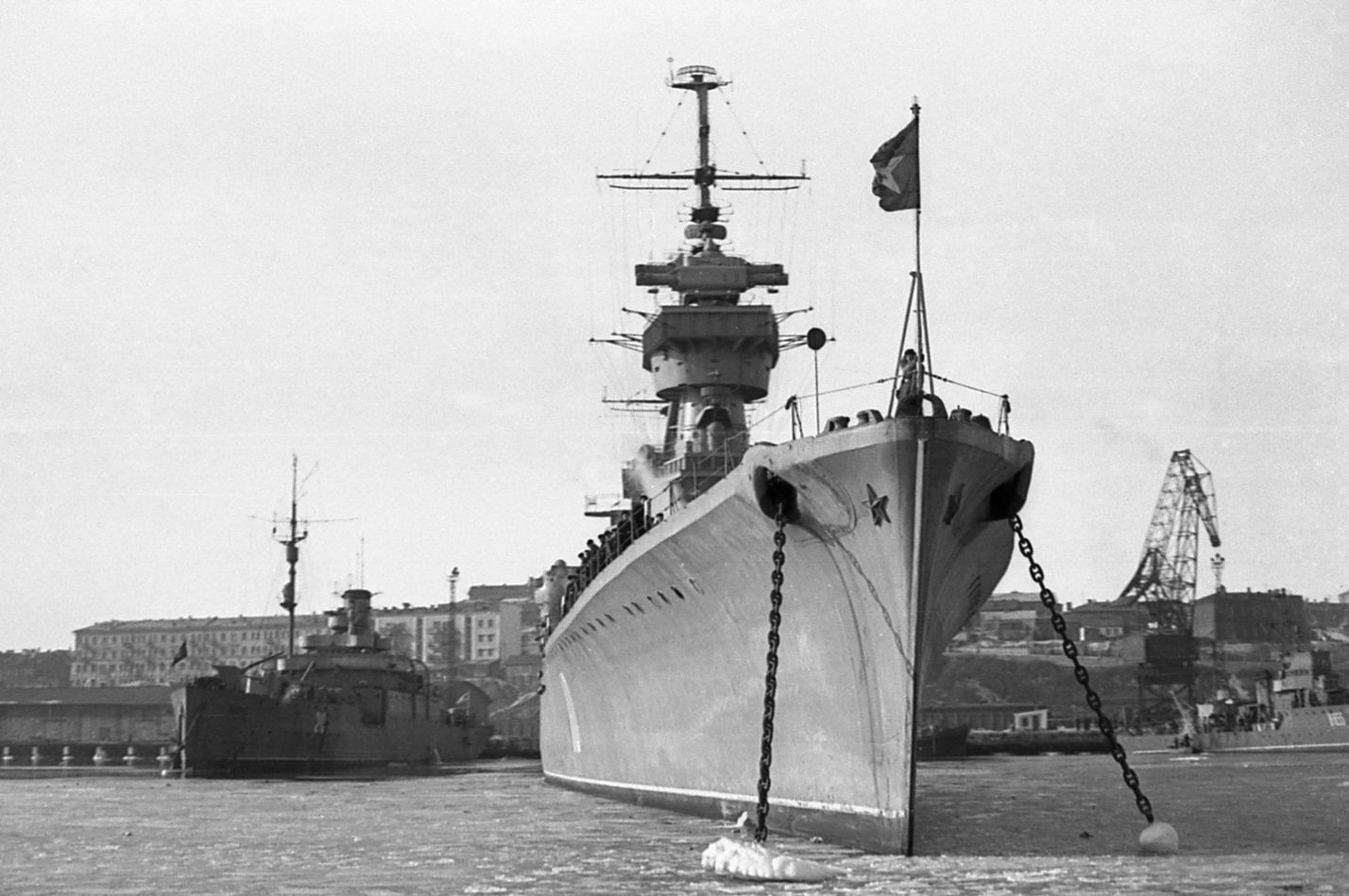 Warship Admiral Lazarev at Golden Horn Bay, Vladivostok, 1957